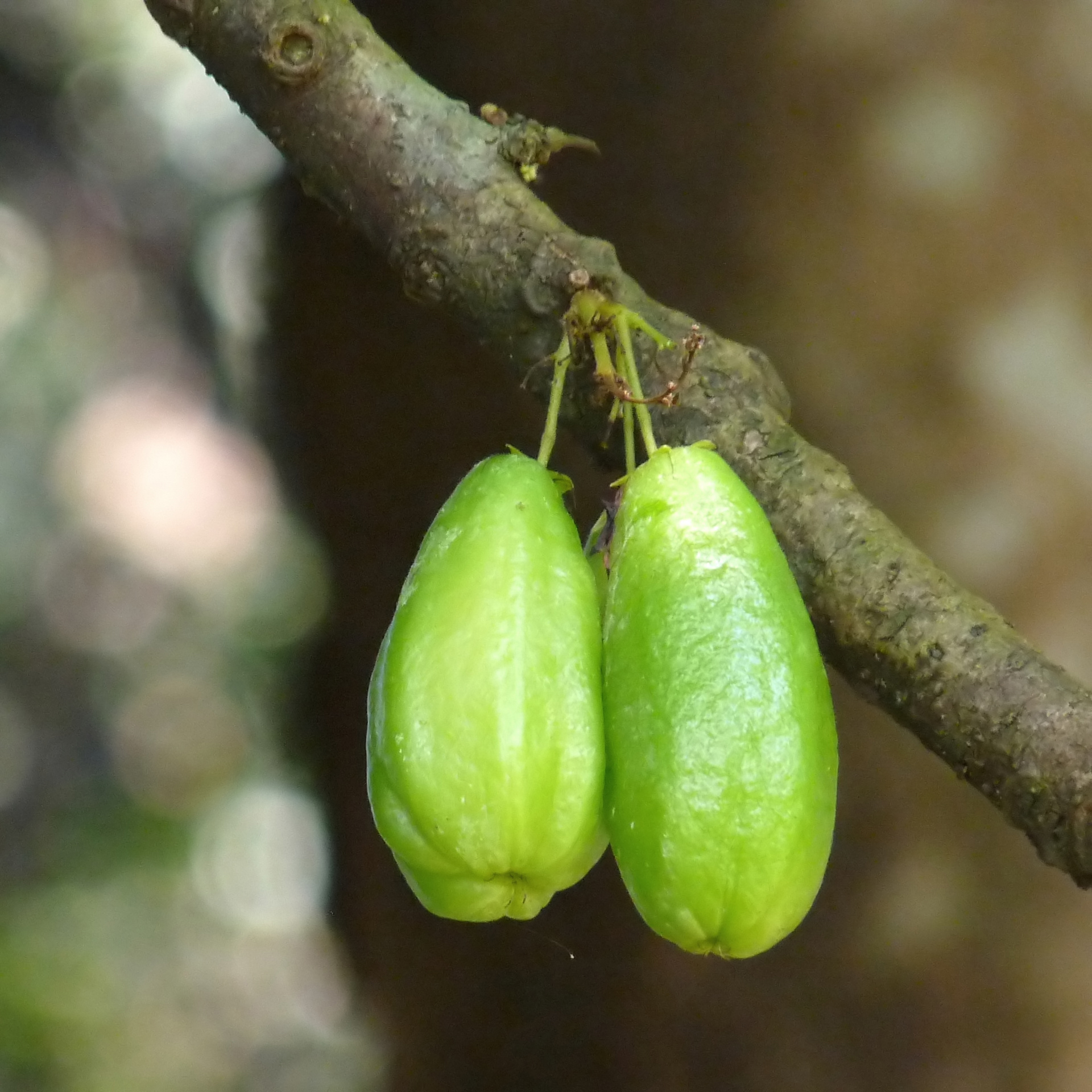 Averrhoa bilimbi (Bilimbi, Cucumber tree, Tree sorrel) is a fruit-bearing tree of the genus Averrhoa, family Oxalidaceae. It is a close relative of carambola tree. The bilimbi tree reaches 5–10 m in height. Its trunk is short and quickly divides up into ramifications. Bilimbi leaves, 3–6 cm long, are alternate, imparipinnate and cluster at branch extremities. There are around 11 to 37 alternate or subopposite oblong leaflets. The leaves are quite similar to those of the Otaheite gooseberry. Possibly originated in Moluccas, Indonesia, the species are now cultivated and found throughout the Philippines, Indonesia, Sri Lanka, Bangladesh, Myanmar (Burma) and Malaysia. It is also common in other Southeast Asian countries. In India, where it is usually found in gardens, the bilimbi has gone wild in the warmest regions of the country.